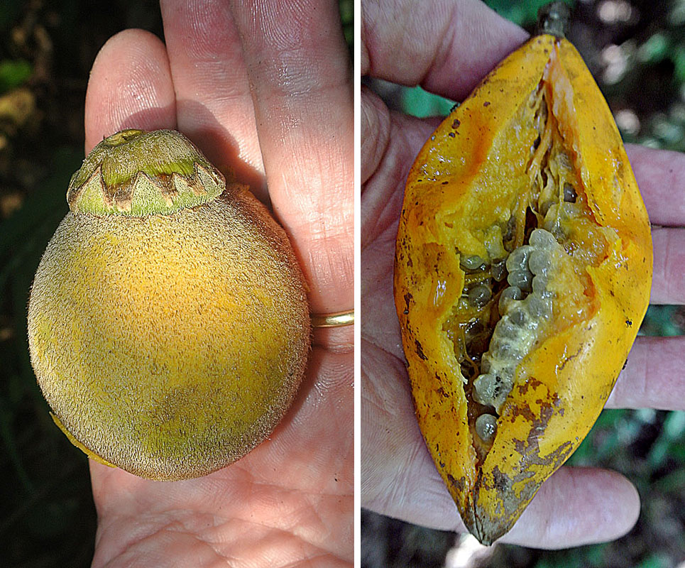 The fruit of the Chambira Palm have an edible interior, and are used in folk medicine. Photo from eastern Ecuador.